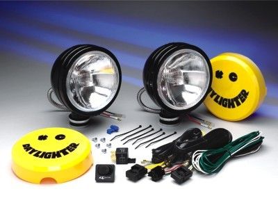 KC HiLiTES Daylighter Lighting System (Pair)